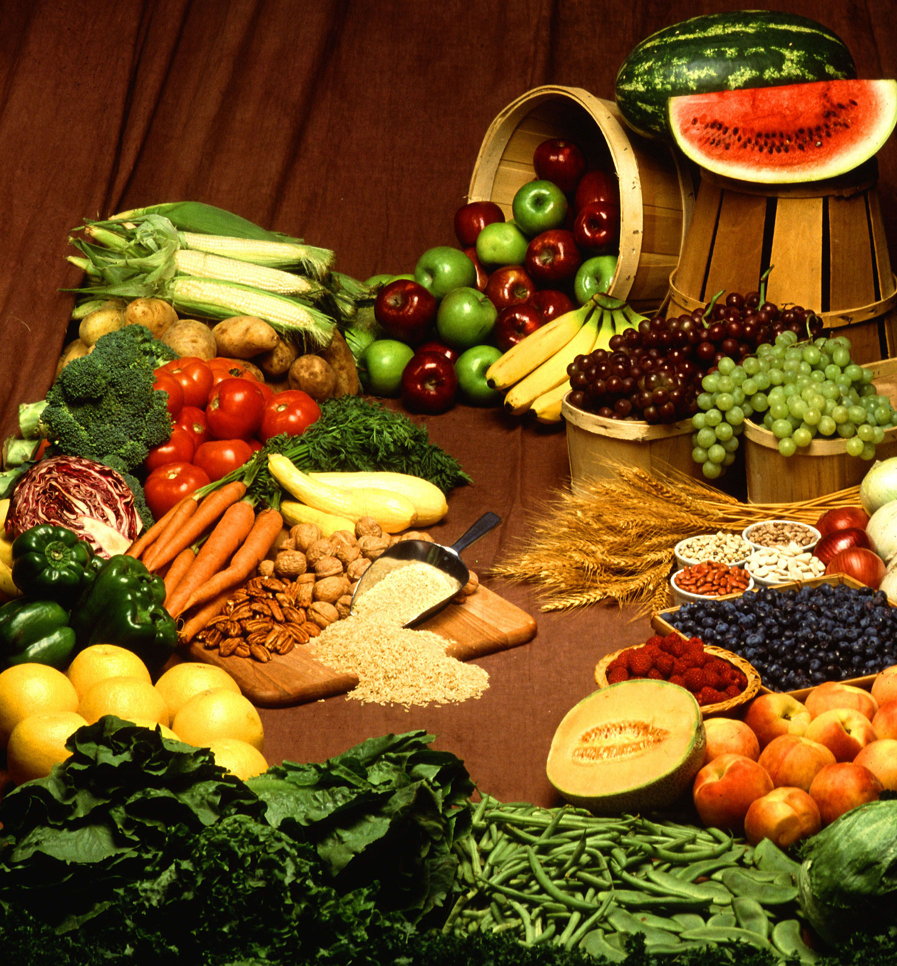 The fiber in complex carbohydrates-grain, fruit, and vegetables-can reduce the body's absorption of fructose, even from fruit which is naturally high in the sugar.